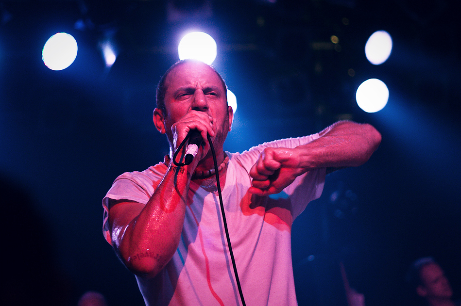 Ray Cappo at the So36